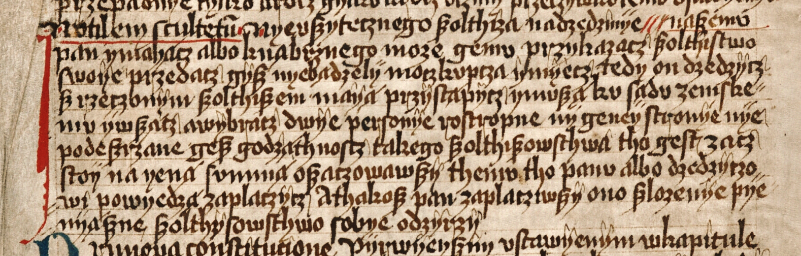 Parto of Statute of Warta 1423 in Kodeks Świętoszława z Wojcieszyna